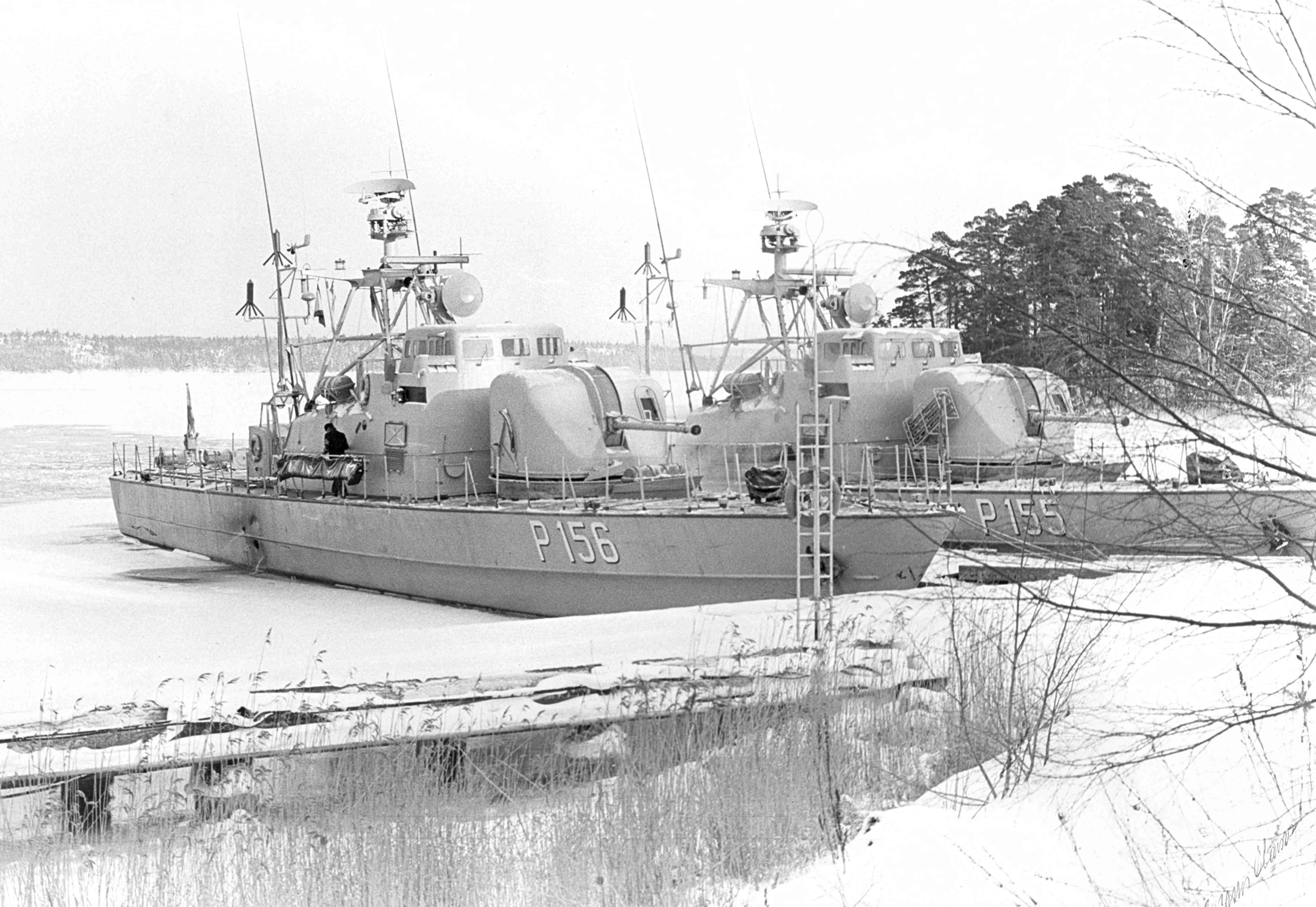 The Swedish Fast Patrol Boats HMS Vidar (P156) & HMS Vale (P155) at home base Gålö During the Winter 1980.